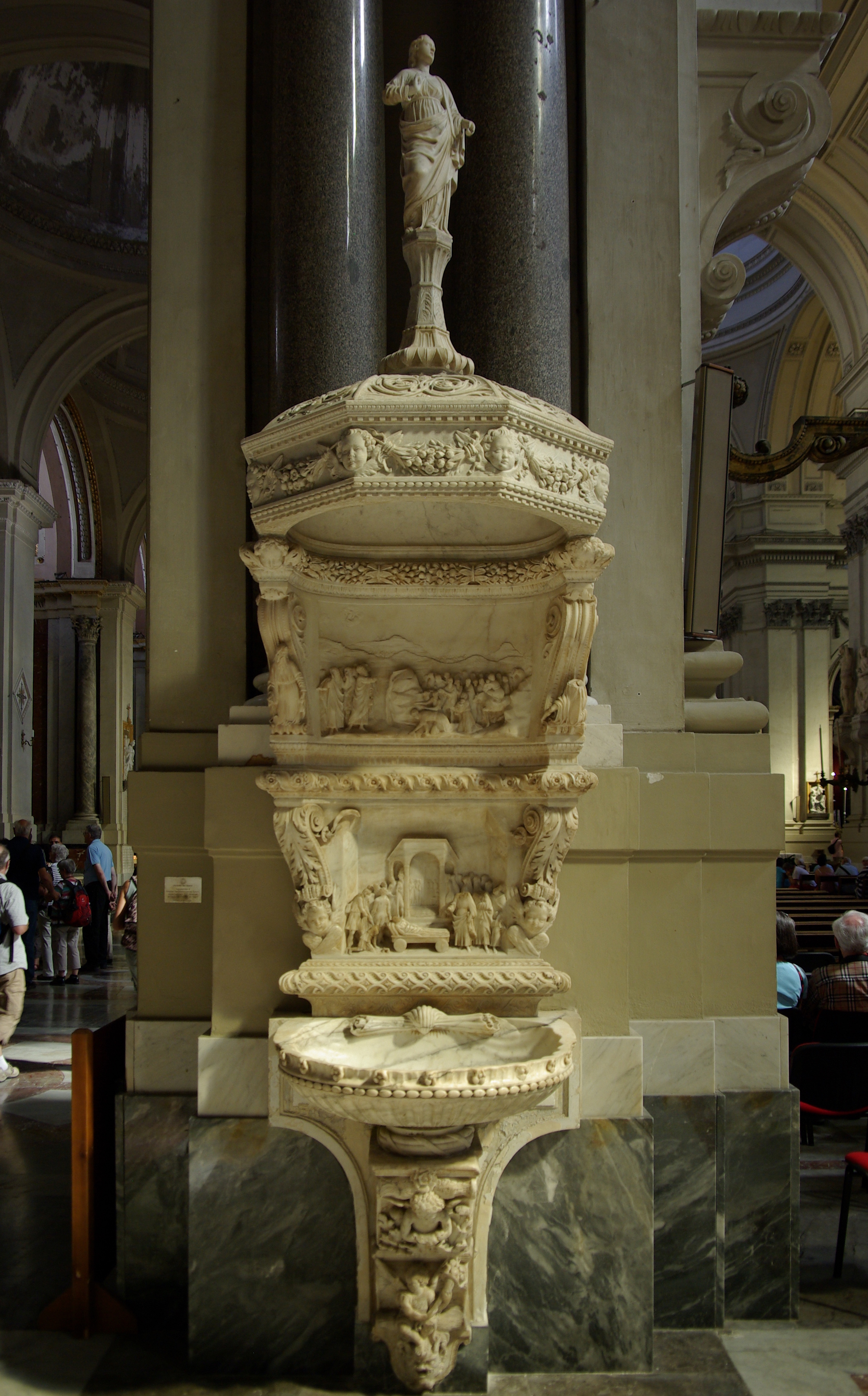 Italy, Sicily, Palermo, cathedral